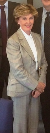 Jacqueline Foster MEP